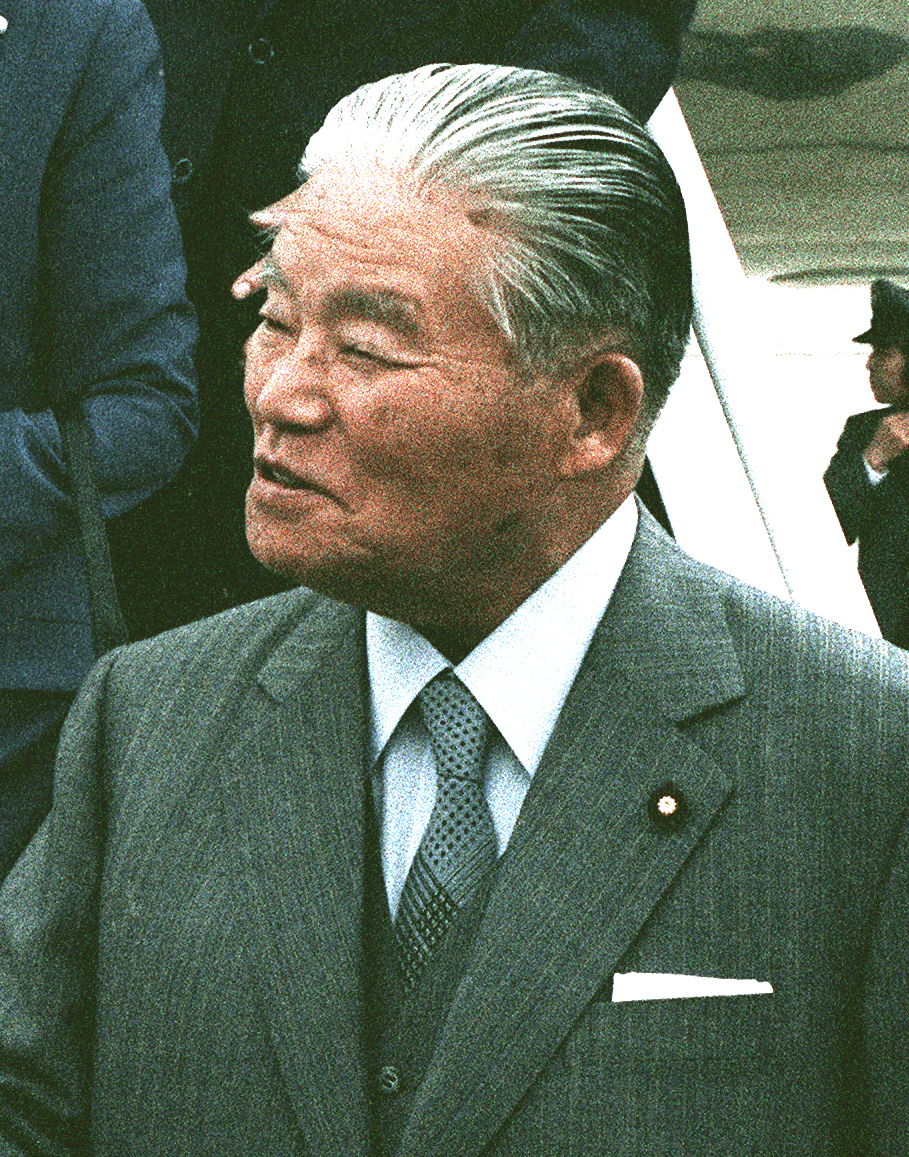 Japanese Prime Minister Masayoshi Ōhira (大平正芳, 1910–80, in office 1978–80) is welcomed upon his arrival in the United States for a visit at Andrews Air Force Base.